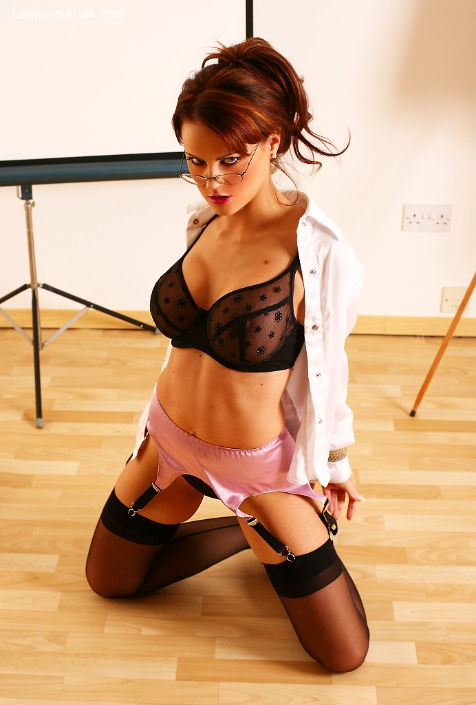 English model Jasmine Sinclair.